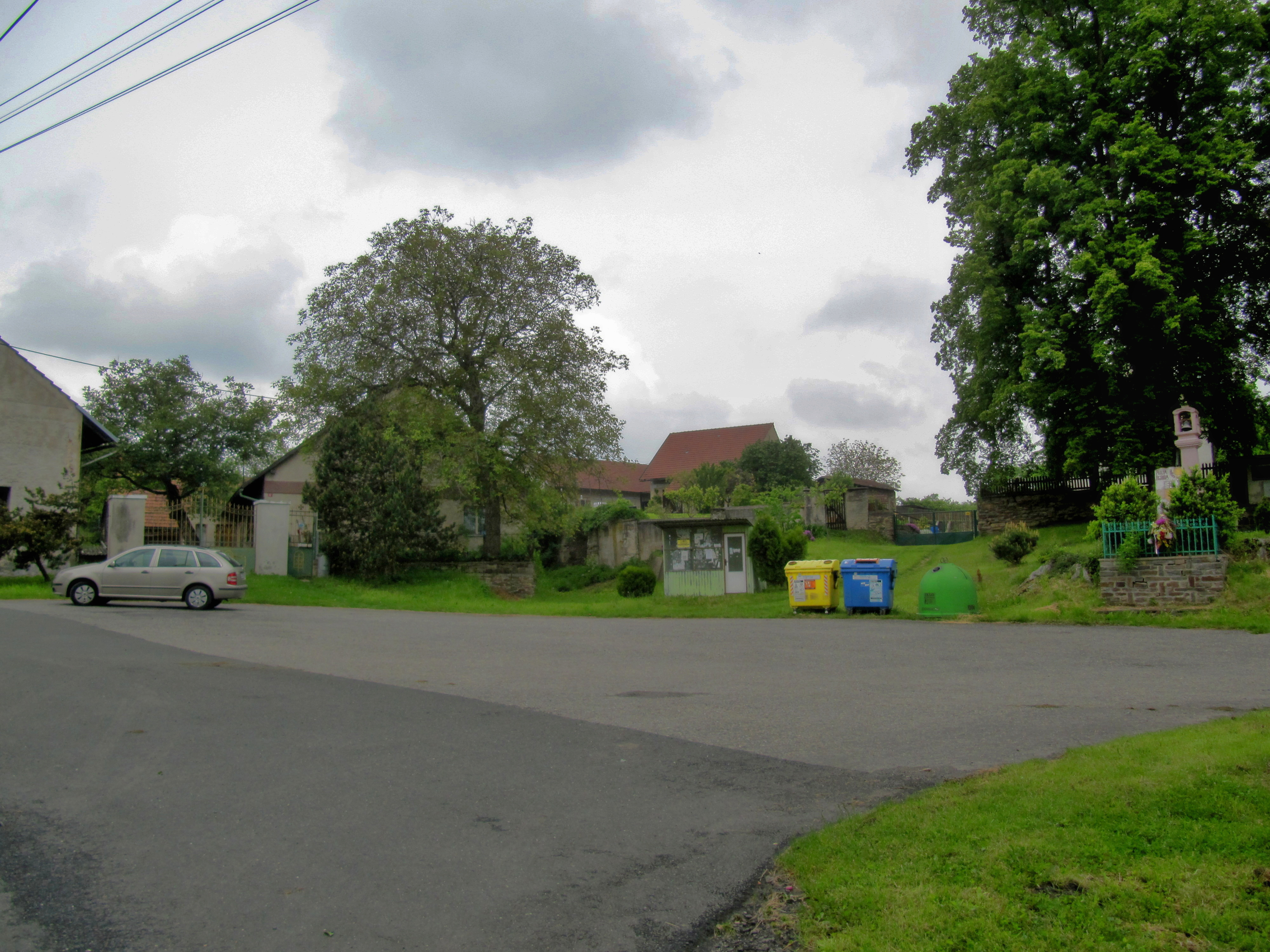 Barchovice, Kolín District, Czech Republic, part Hryzely. Village green with belfry and World War I memorial.